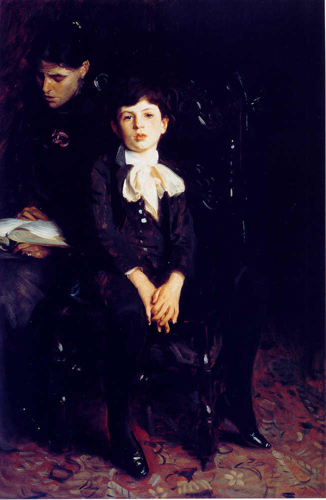 Homer Saint-Gaudens and his Mother John Singer Sargent -- American painter 1890 Carnegie Museum of Art, Pittsburgh Oil on canvas 151.8 x 142.2 cm (59 3/4 x 56 in.) Patrons Art Fund Jpg: Local